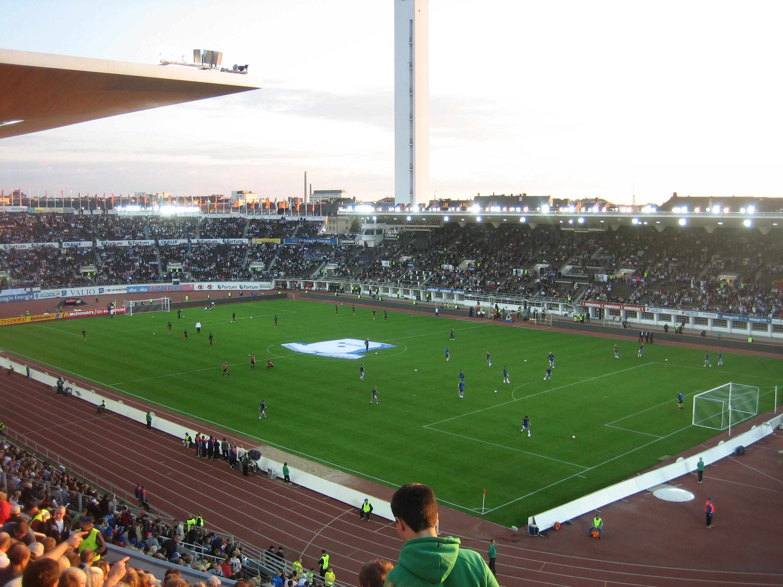 Finland - Portugal 06 Sept 2006, Olympiastadion